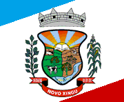 Coat of arms of the city of Novo Xingu, Rio Grande do Sul, Brazil.